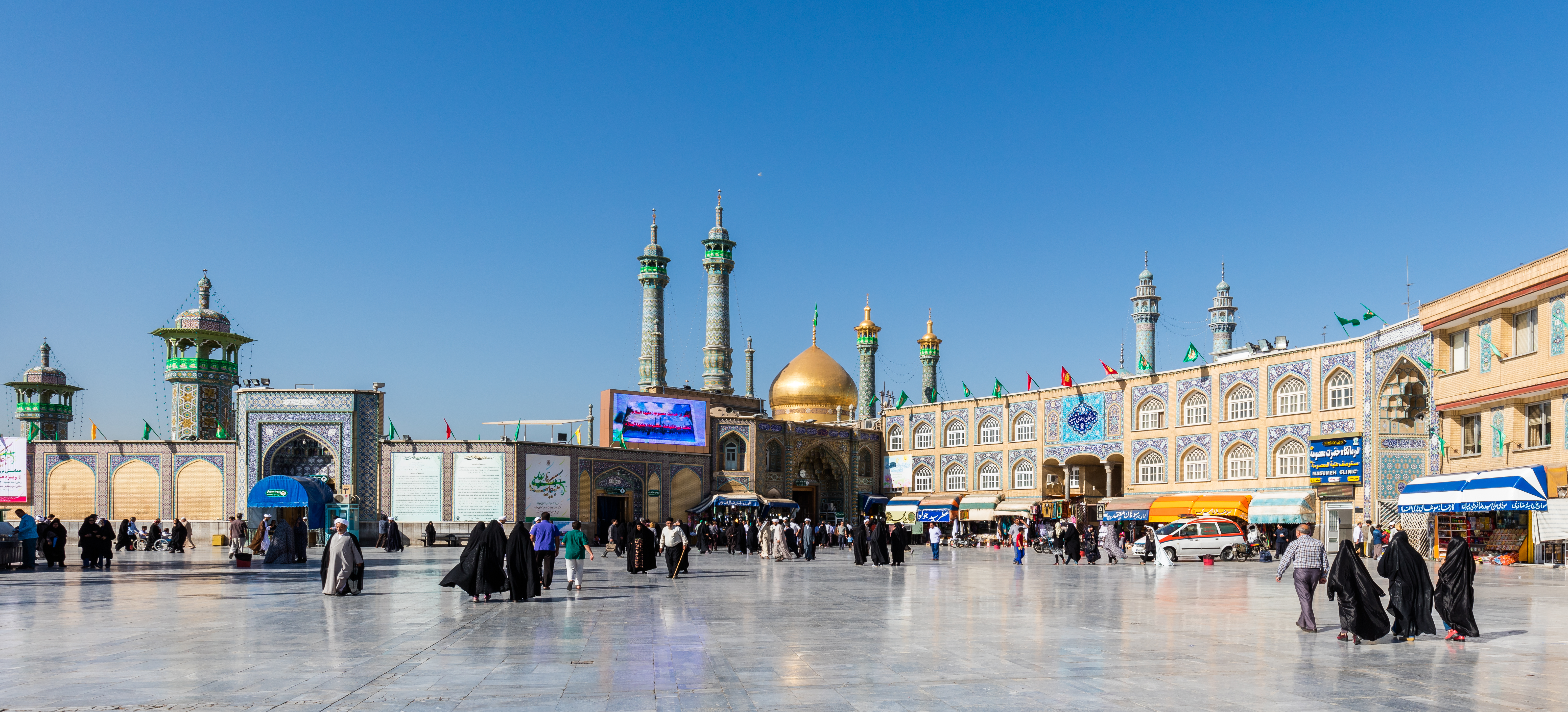 Fatimah Ma'sumah Shrine, Qom, Iran